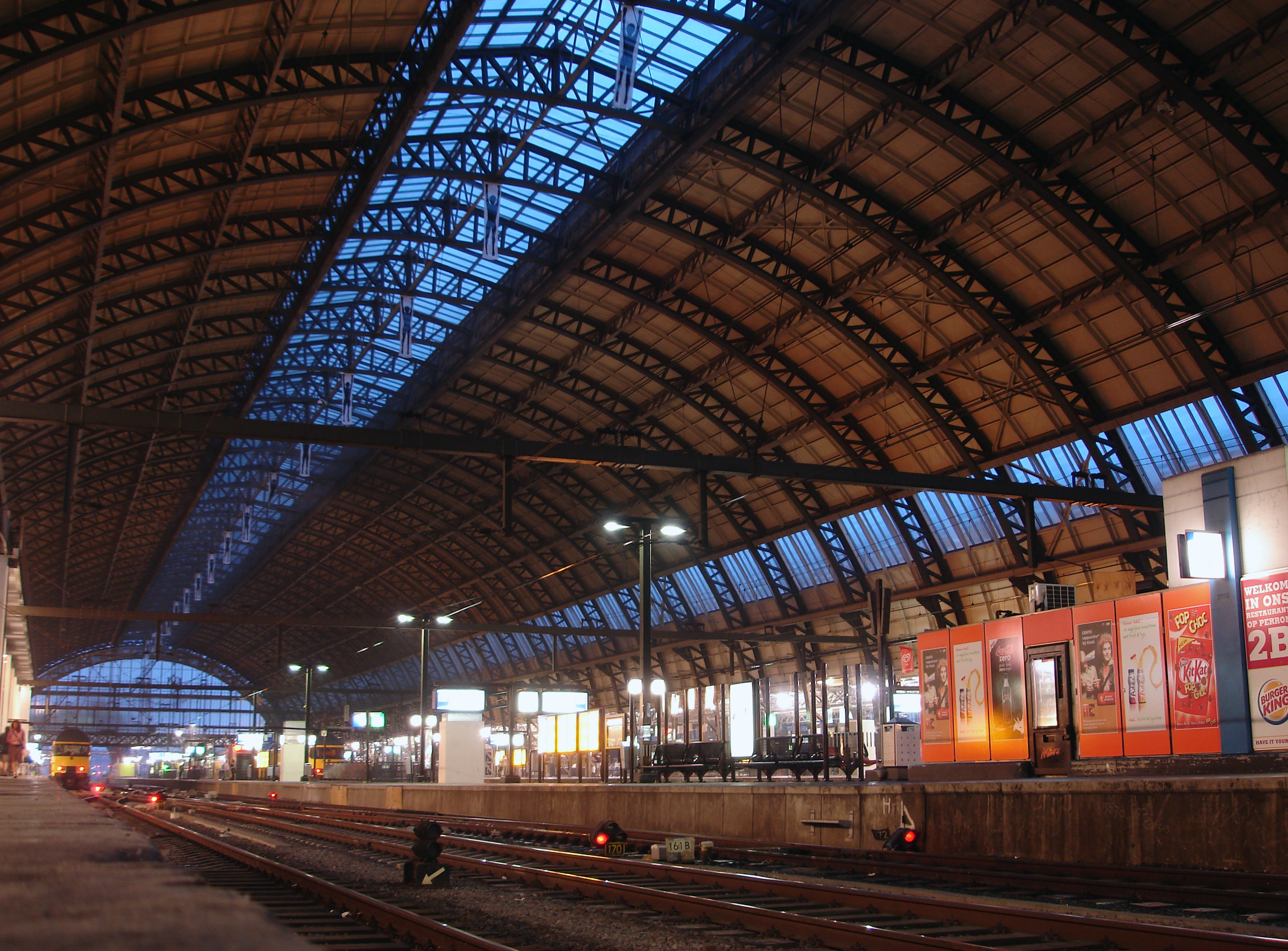 Interior of the Amsterdam Central Station (1885).